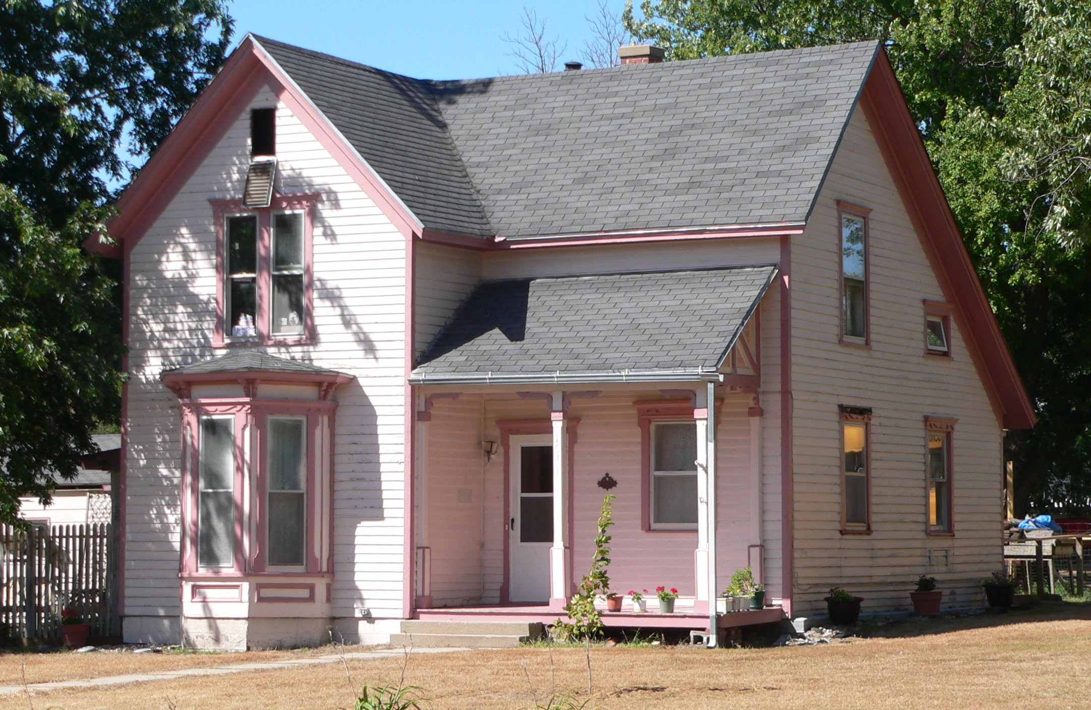 Dr. Gilbert McKeeby House, located at southwest corner of Cherry Street and 7th Avenue in Red Cloud, Nebraska; seen from the northeast. The Greek Revival house is listed in the National Register of Historic Places.